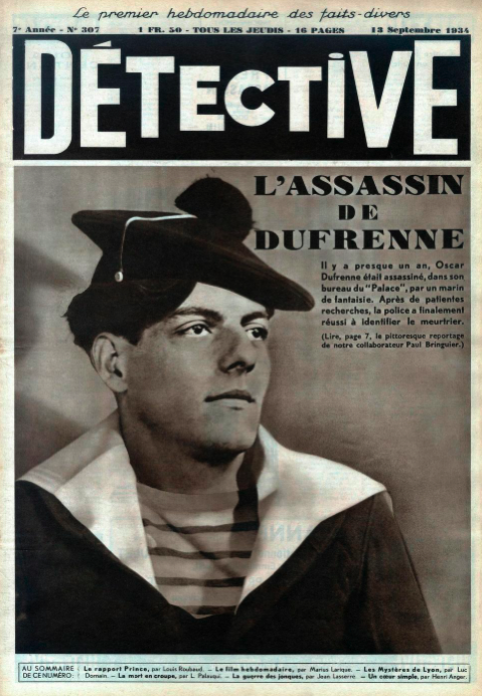 Front cover of Détective, a French Magazine published in Paris. Issue 307, September 13th 1934 : L'Affaire Oscar Dufrenne.